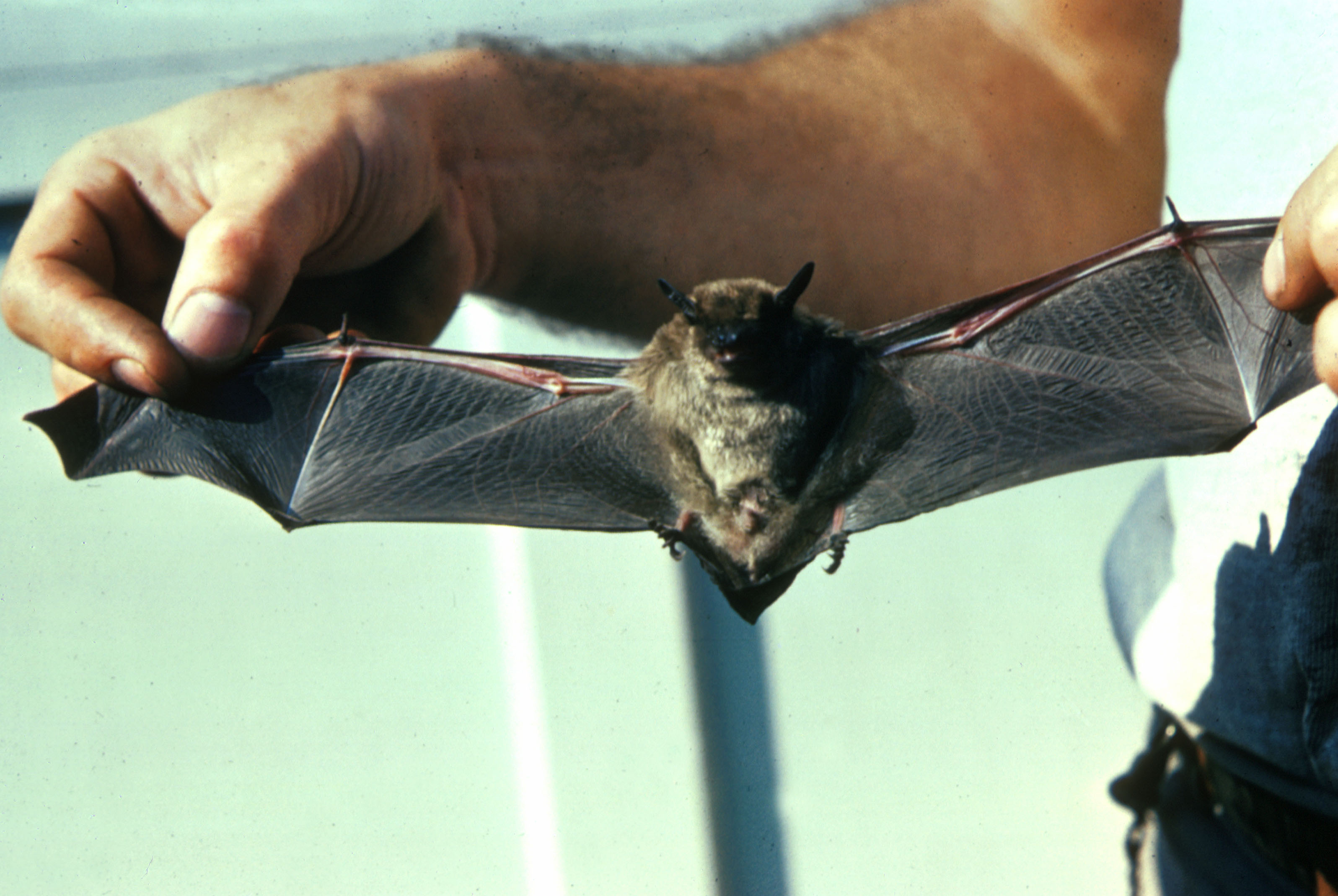 Note: this is indicated as a big brown bat if you search in the United States Fish and Wildlife Service website at [1] using the keywords "big brown bat". In a FWS newsletter, however, this is described as a little brown bat.[2]